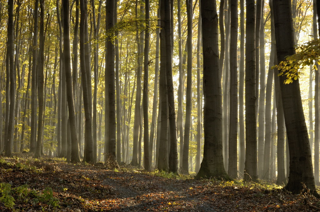 Beech forest in Malé Karpaty